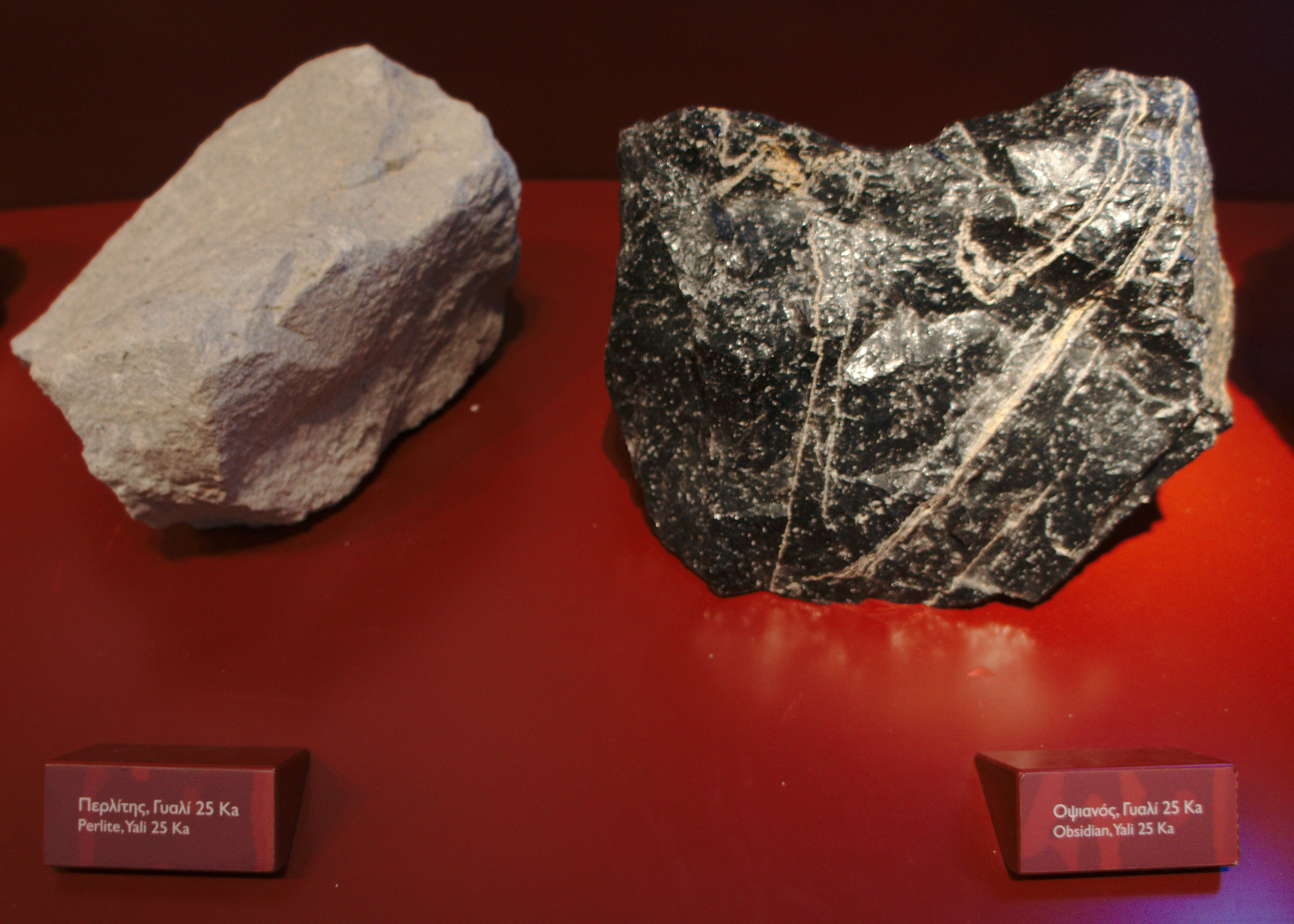 Perlite and Obsidian samples from Yali island (near Nisyros)